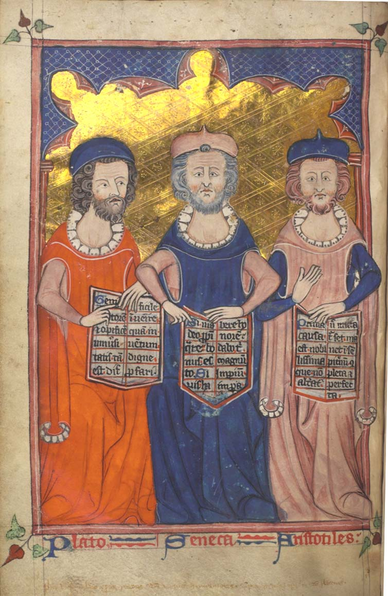 Plato, Seneca, and Aristotle in an illustration from a medieval manuscript that included various philosophical texts. From: Devotional and Philosophical Writings, MS Hunter 231 (U.3.4), page 276